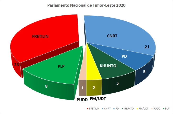 Parliament of East Timor after new coalition 22 February 2020